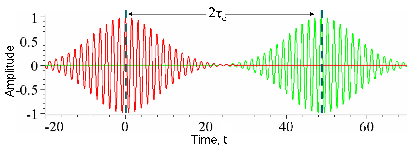 A wave packet and a copy of itself delay by twice the coherence time. I created this.